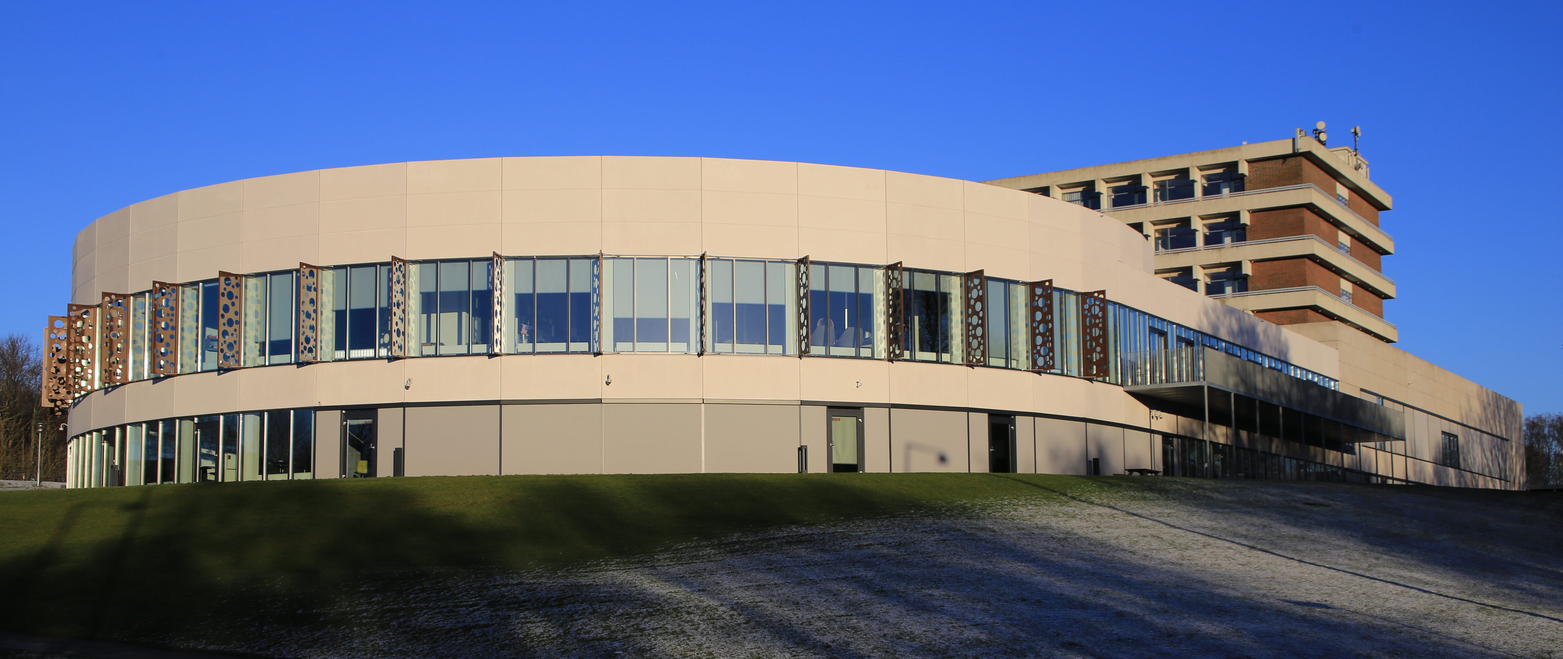 Tietgen, business school in Odense, Denmark.